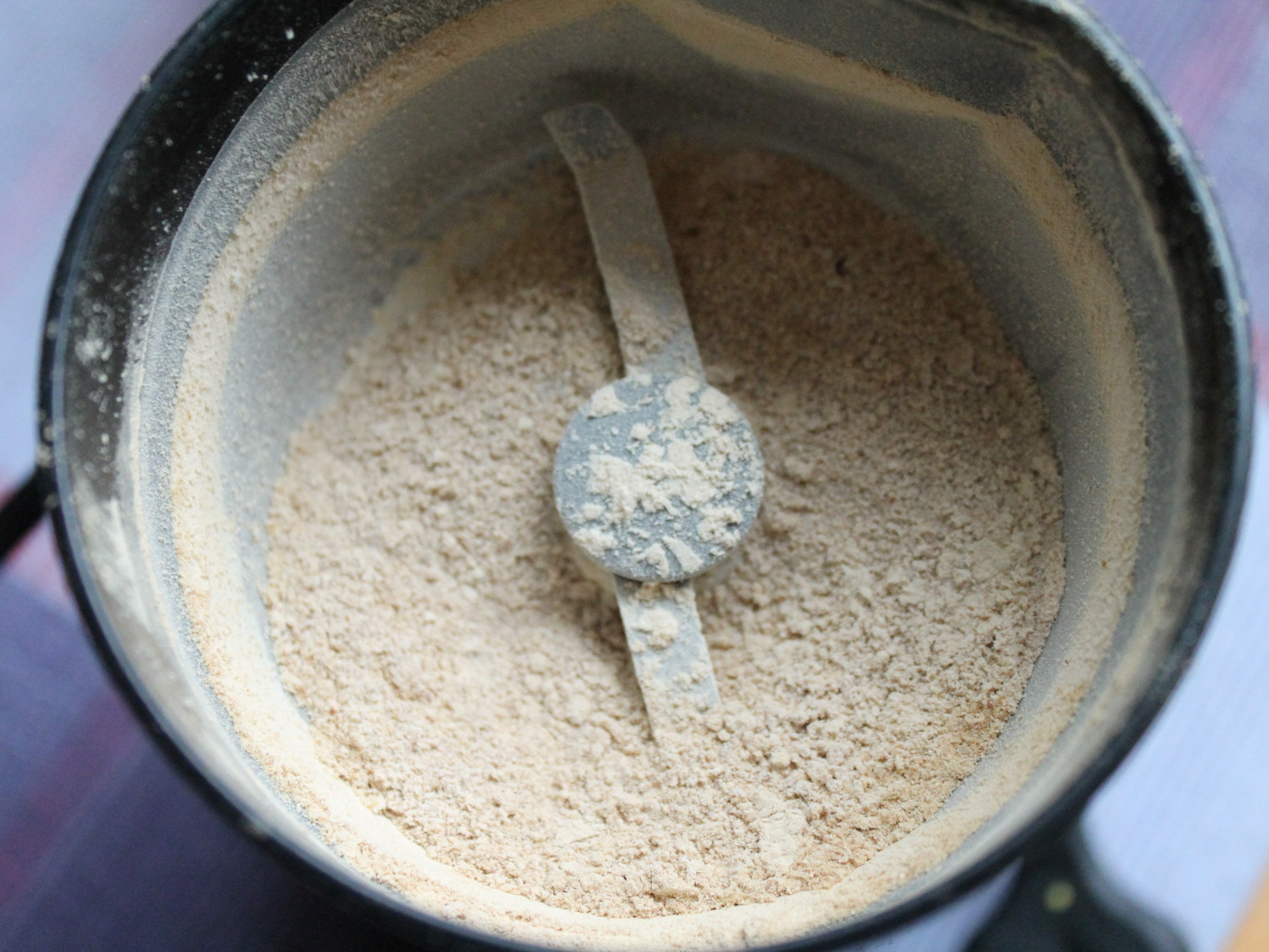 This is a freshly ground dried Boletus edulis (alias porcini or cep) mushroom. This mushroom powder can be used for soups and stews. The wild mushrooms were picked and dried by myself, in Rhine-Neckar region of Germany.